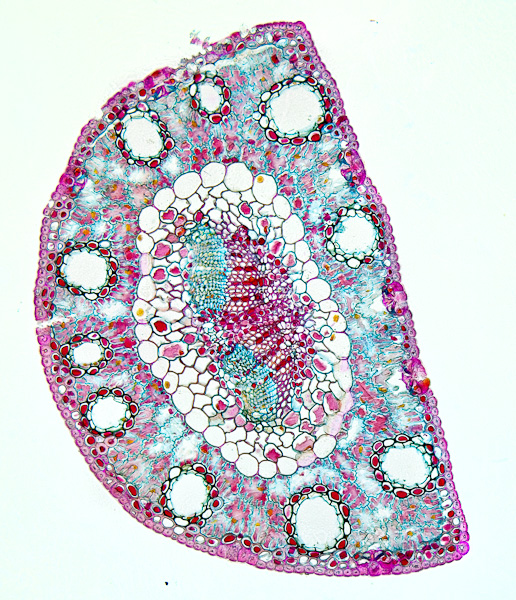 Cross section through pine tree needle. Thicknes about 10 um.